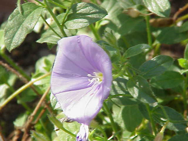 Species: Convolvulus sabatius Family: Convolvulaceae Image No. 1